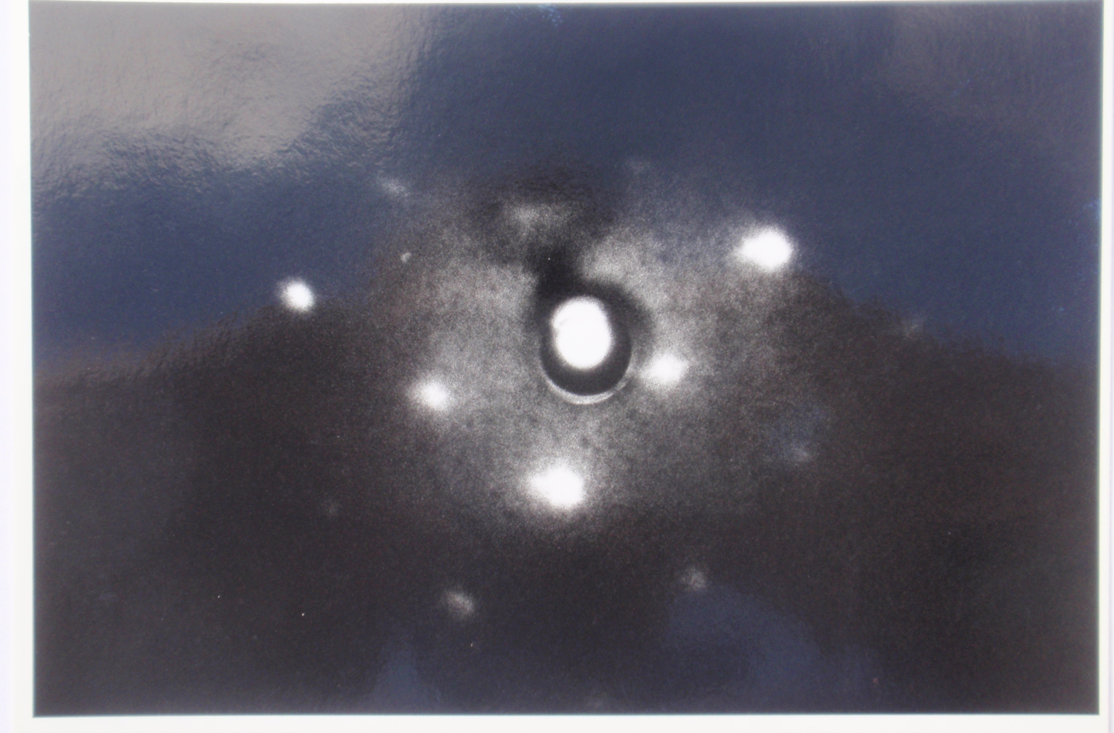 Photo of a LEED pattern of CO absorbed on Platinum/Rhodium single crystal (100) (Miller index) taken in high vacuum.